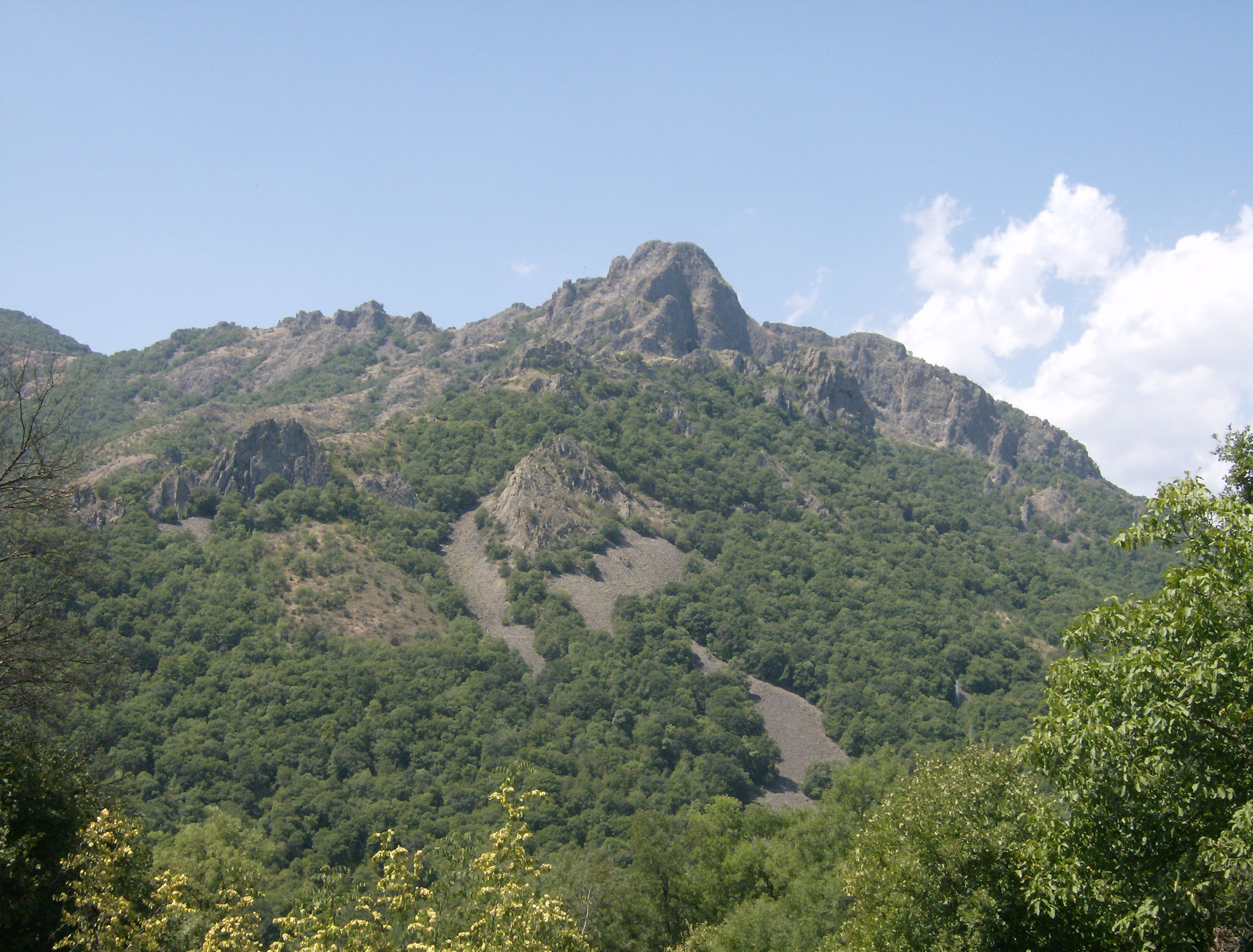 Momina skala, Madzharovo